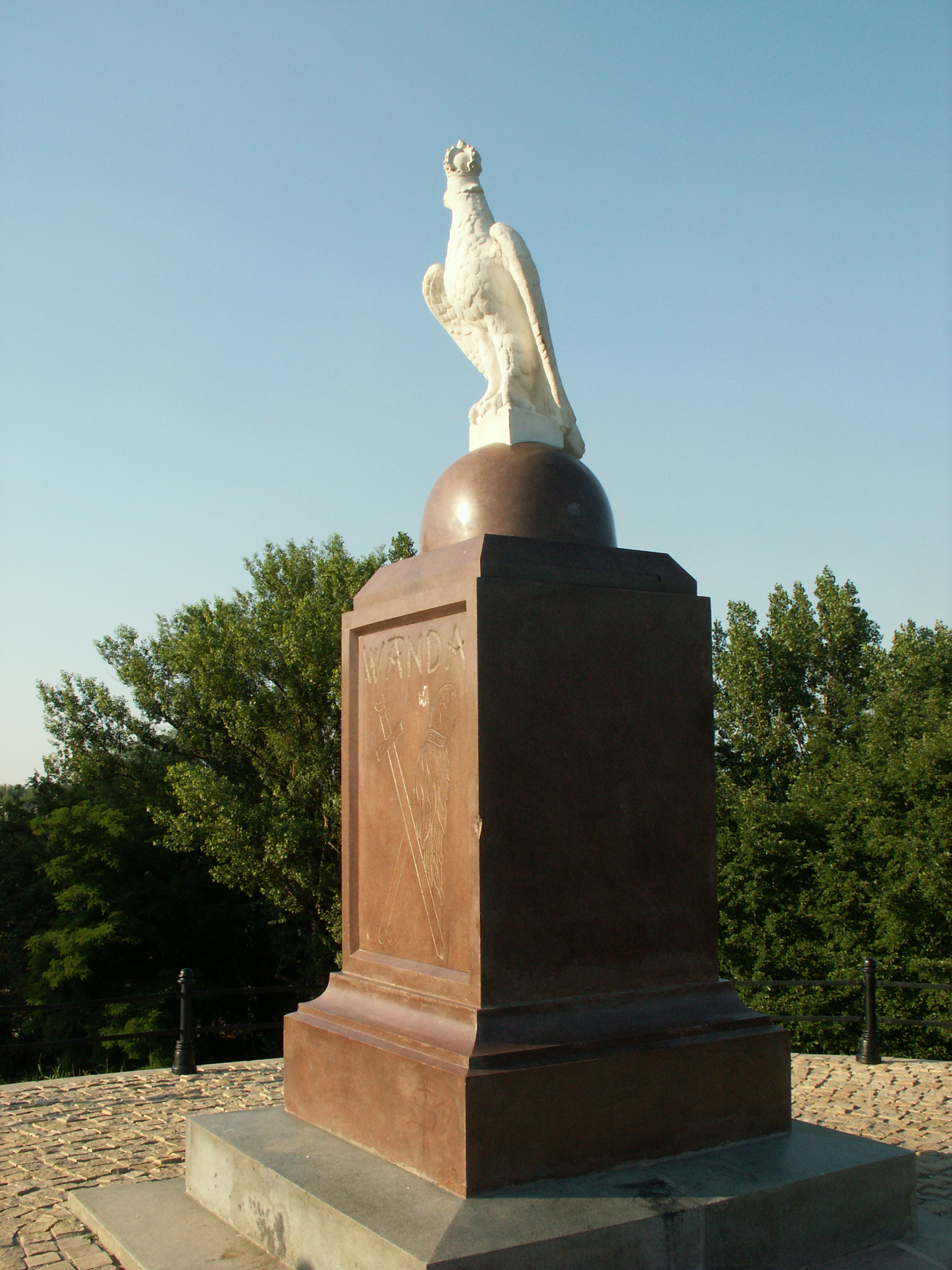 author macieias